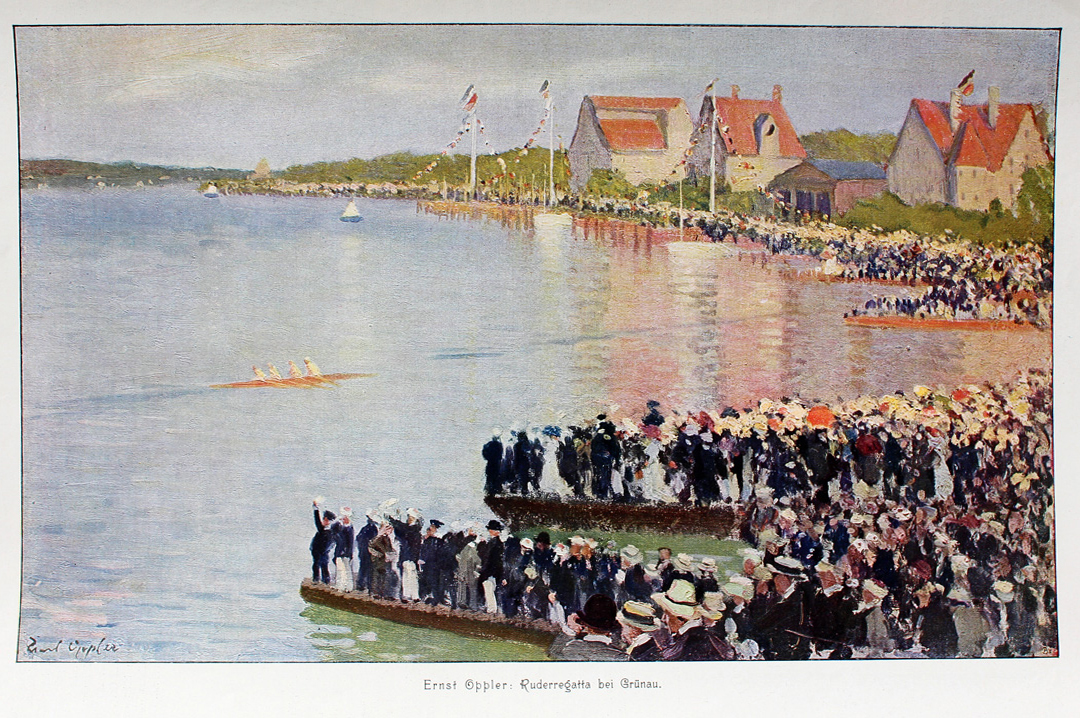 Painting by Ernst Oppler